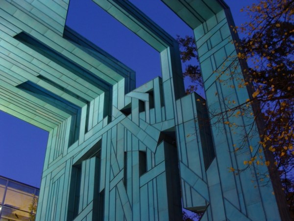 Gate Life Science Institute Library, Debrecen